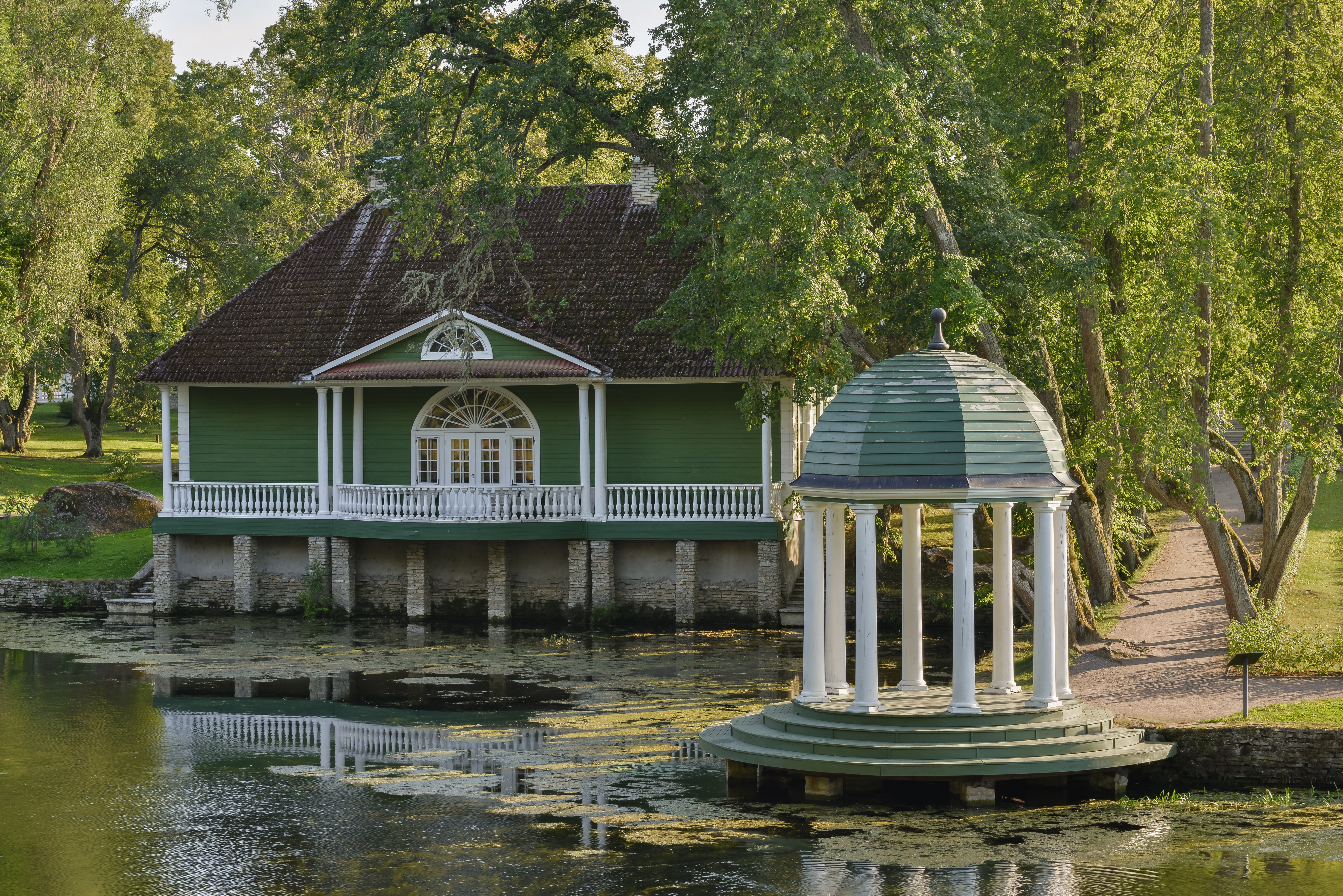 Rotunda and bathhouse at Palmse manor park